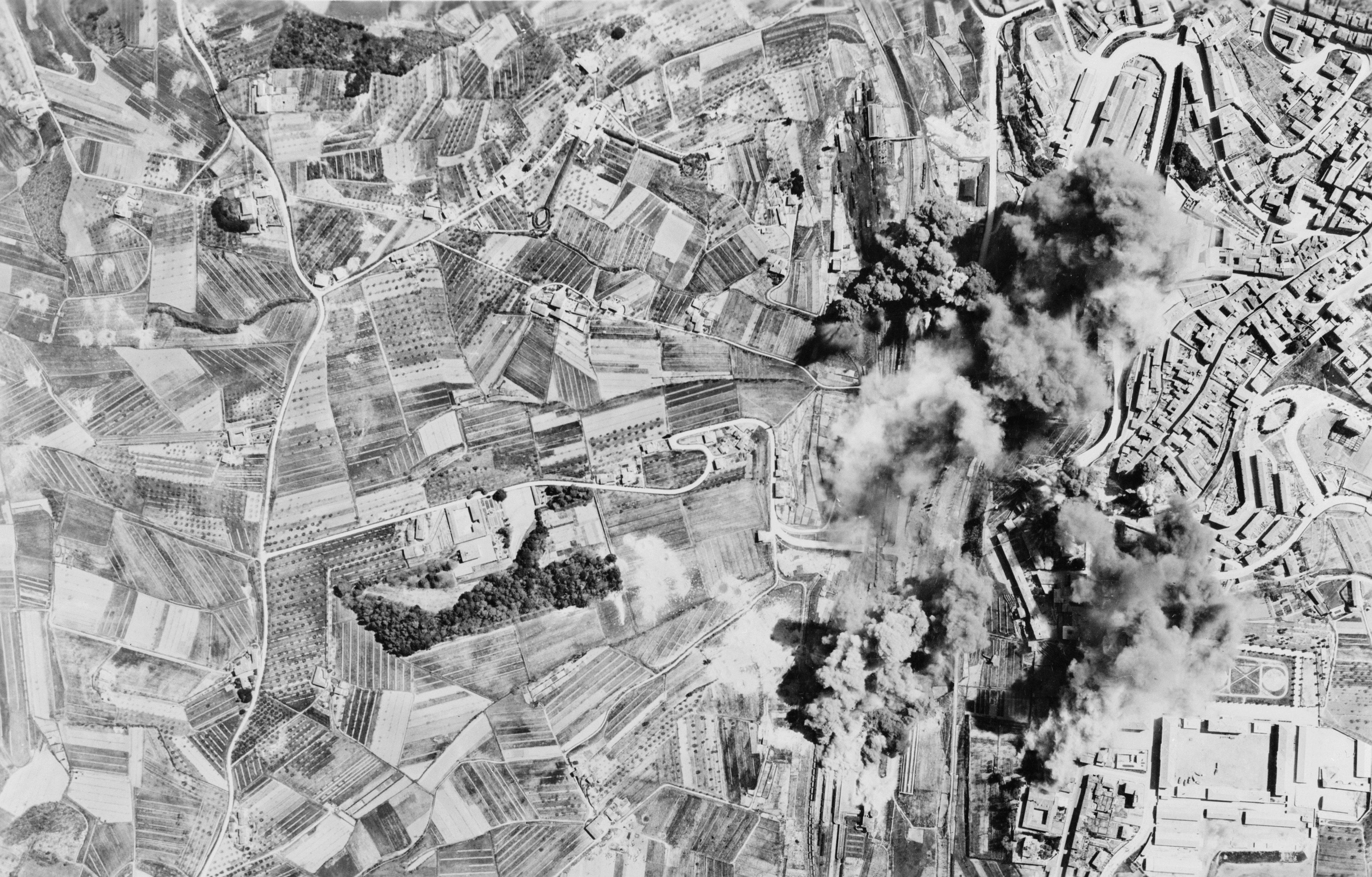 Nazi railroad yards at Siena are knocked out. On the alternate line from Pisa and Florence south to Rome, the Siena yards were blasted by Mediterranean Allied Air Force Bombers. Within two months "Operation Strangle" had smashed all large and medium sized railyards at Rome, Rimini, Ancona, Pisa, Arezzo, Foligno, Terni, and Viterbo